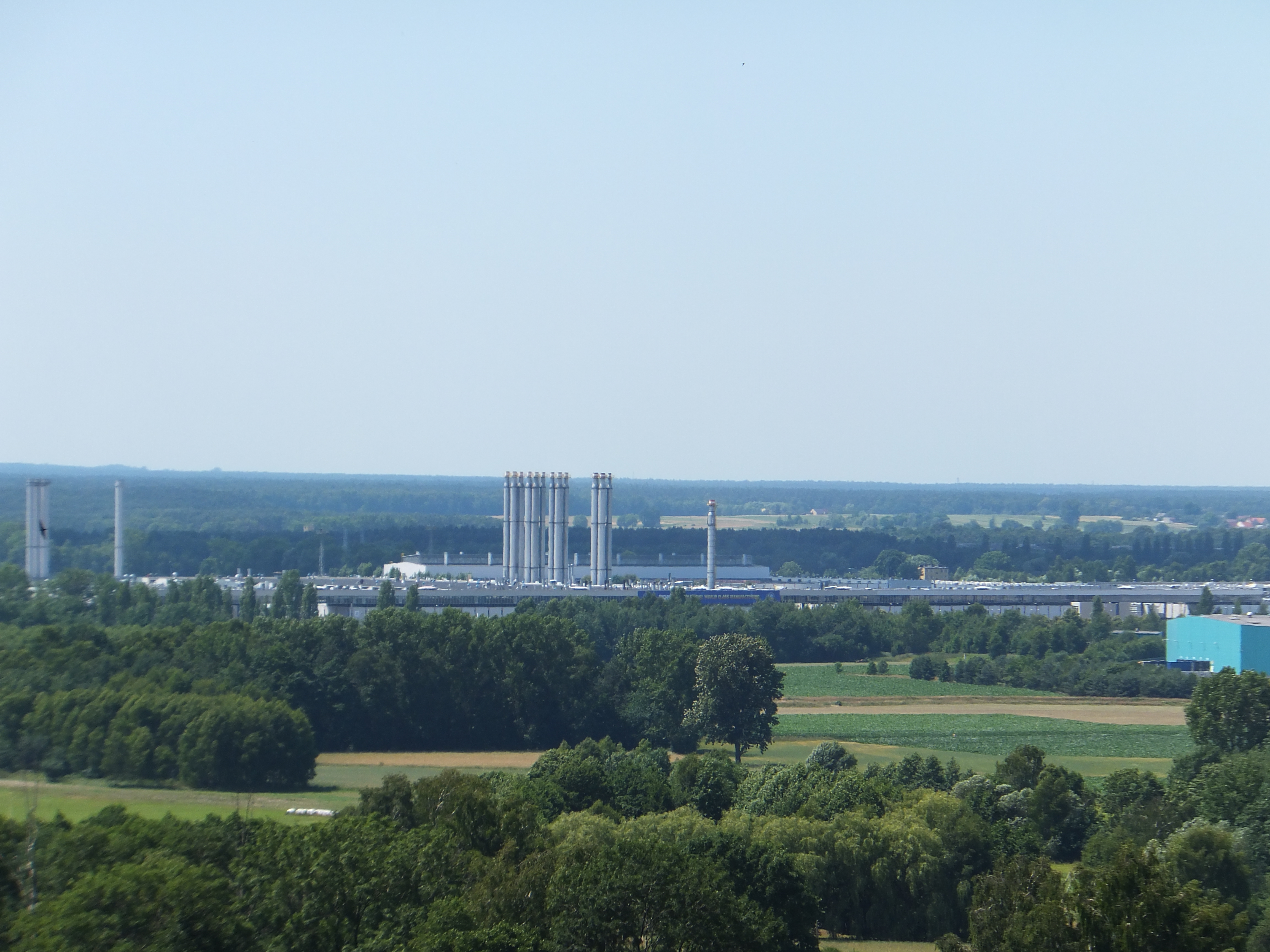 Fiat Auto Poland in Tychy, the view from the hill Klimont in Lędziny (Poland).